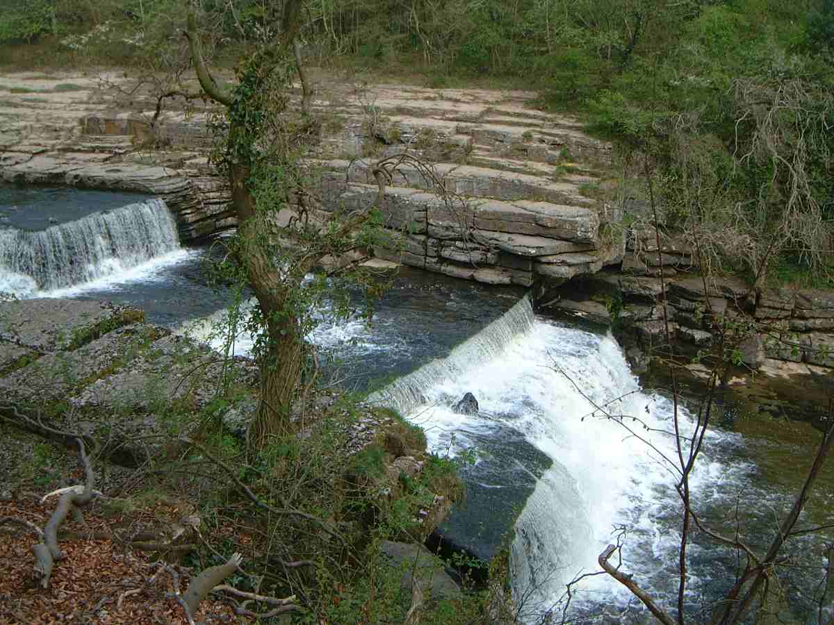 Summary Personal photograph taken by Mick Knapton on May 6th 2006